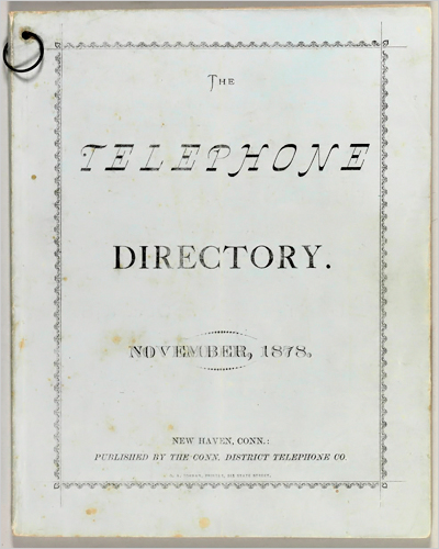 New Haven telephone directory, 1878. The world's first phone book.